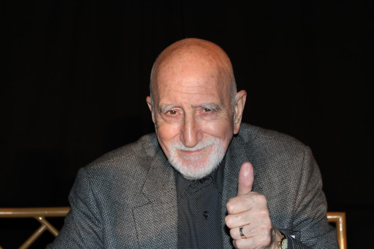 American actor Dominic Chianese.